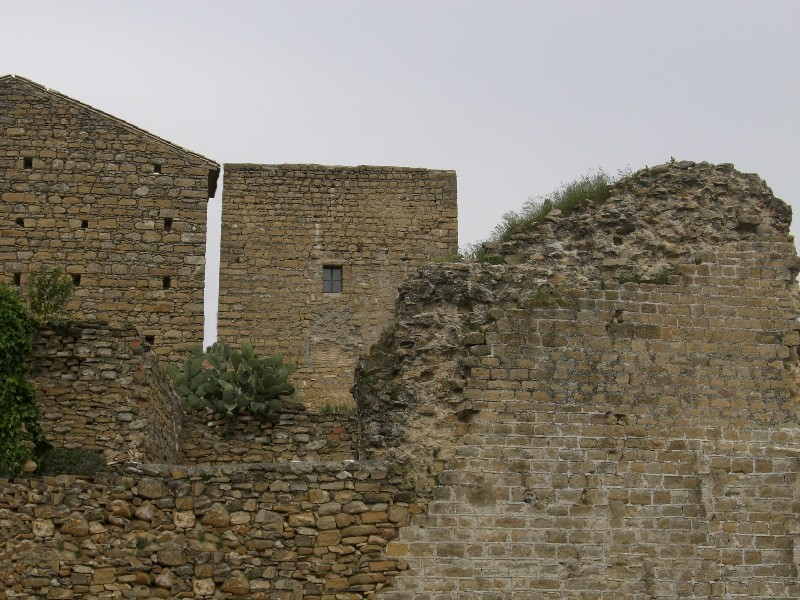 Muralla del Castillo de Begíjar